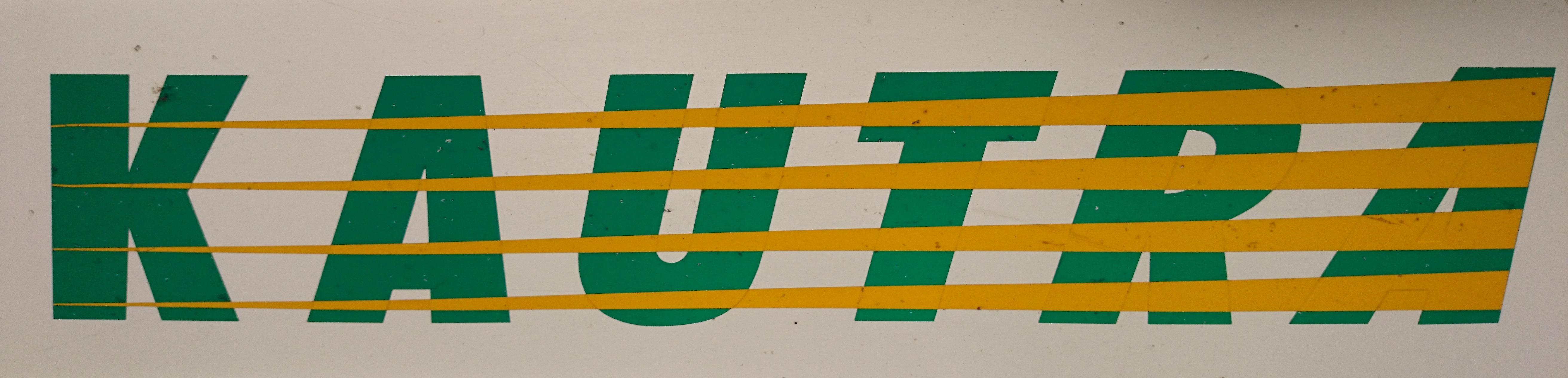 Kautra